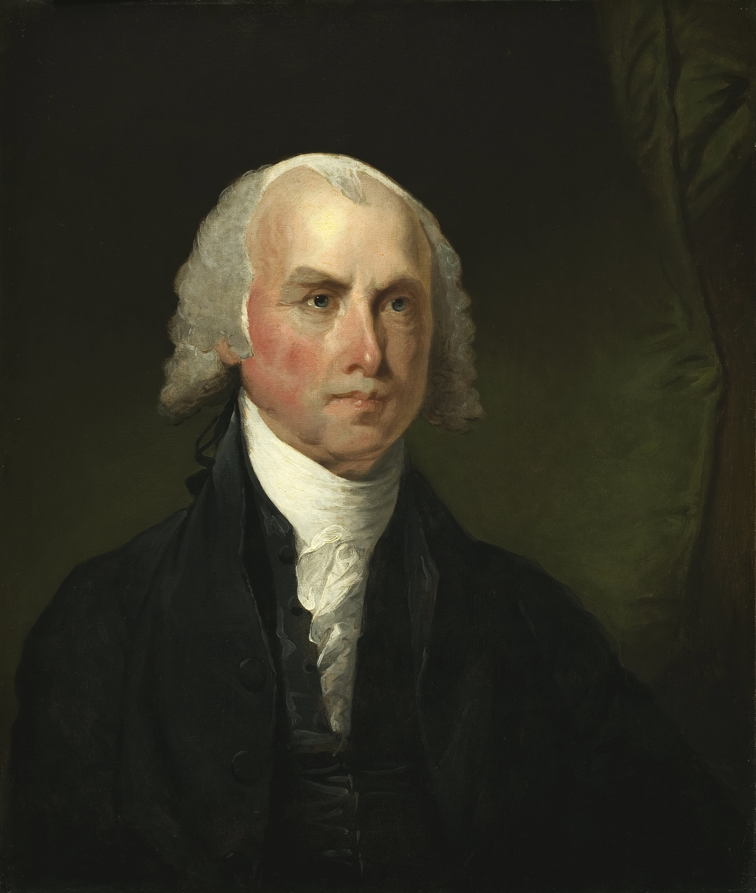 Stuart first portrayed James Madison when he was Jefferson's secretary of state. The Gibbs-Coolidge likeness may have been painted from life during Madison's two terms as president from 1809 to 1817. The deep green curtain accents the color of Madison's eyes